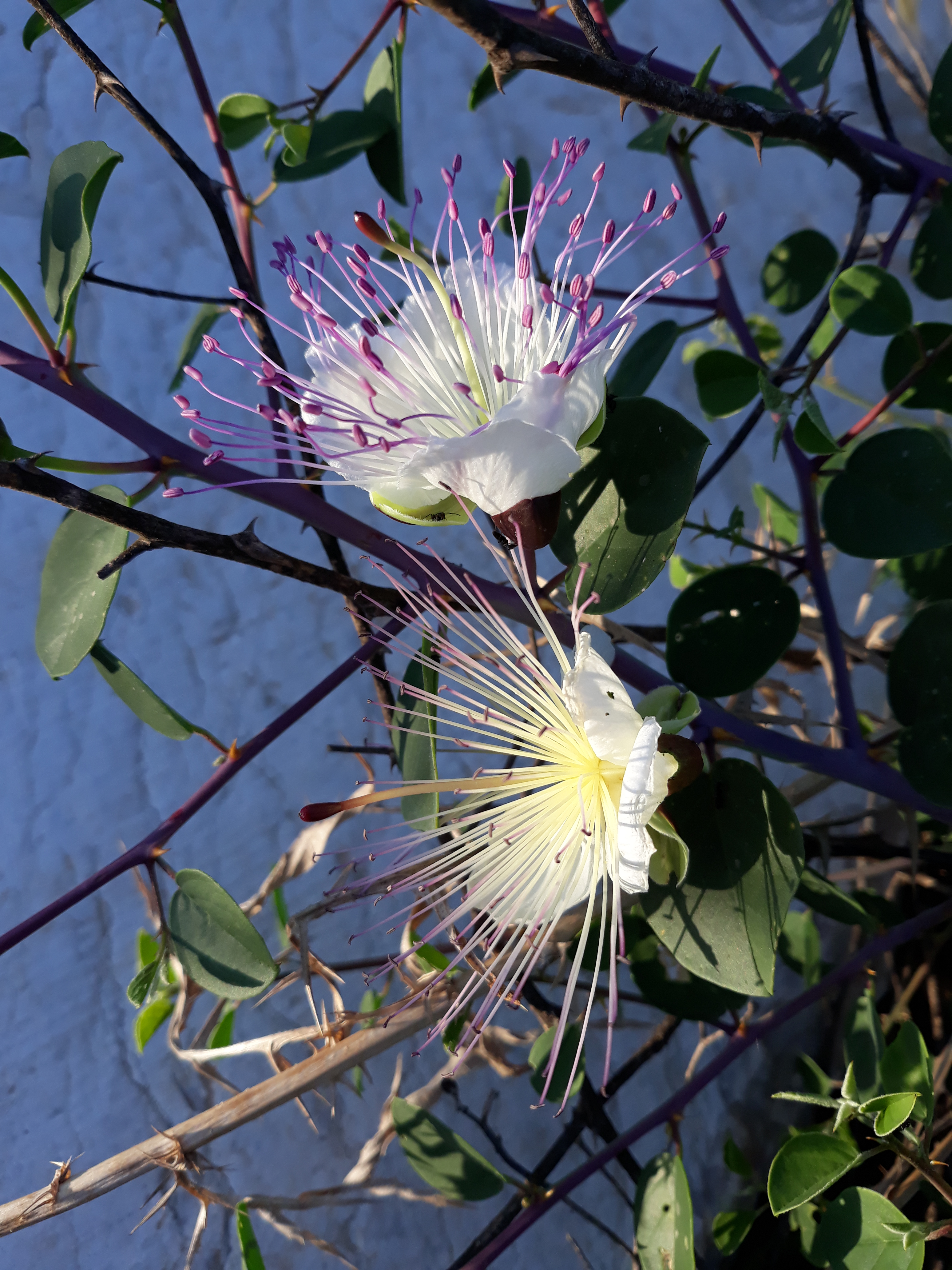 Two caper (Capparis zoharyi) flowers on a bush.